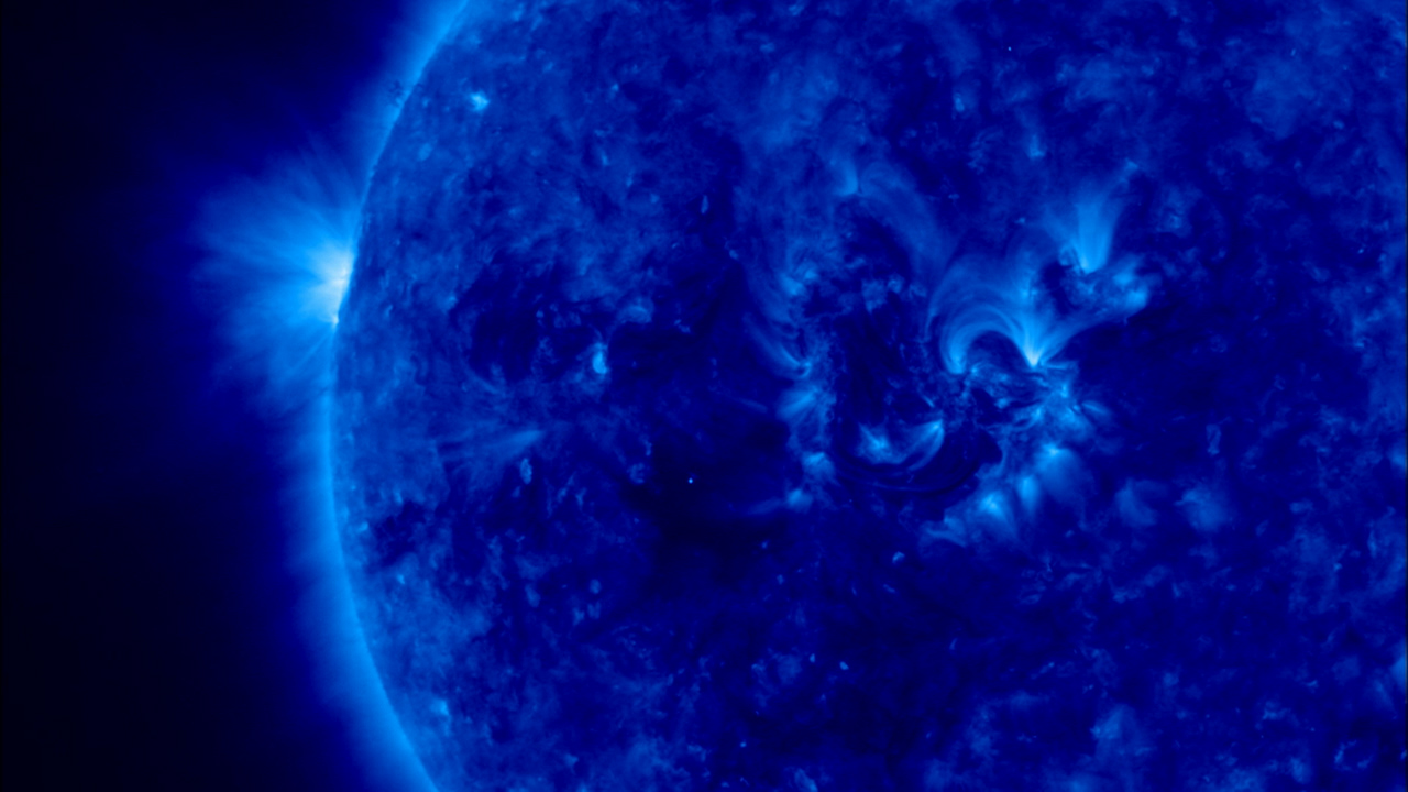 This image highlights active regions on the sun. The series of solar images show a mosaic of the extreme ultraviolet images from STEREO's SECCHI/Extreme Ultraviolet Imaging Telescope taken March 17-27, 2007. These false color images show the sun's atmospheres at a range of different temperatures. Blue image: 1 million degrees C (171 Å), green, 1.5 million C (195 Å), red 60,000-80,000 (304 Å), and yellow image2.5 million C (286 Å). Each temperature allows scientists to focus on different features of the sun.